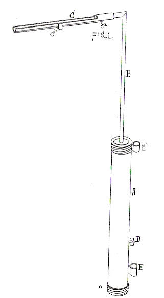 Crop of patent 636492